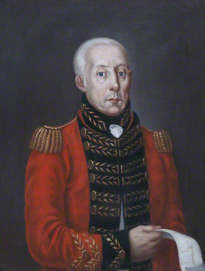 Lt. General Sir Hugh Lyle Carmichael (1764-1813)